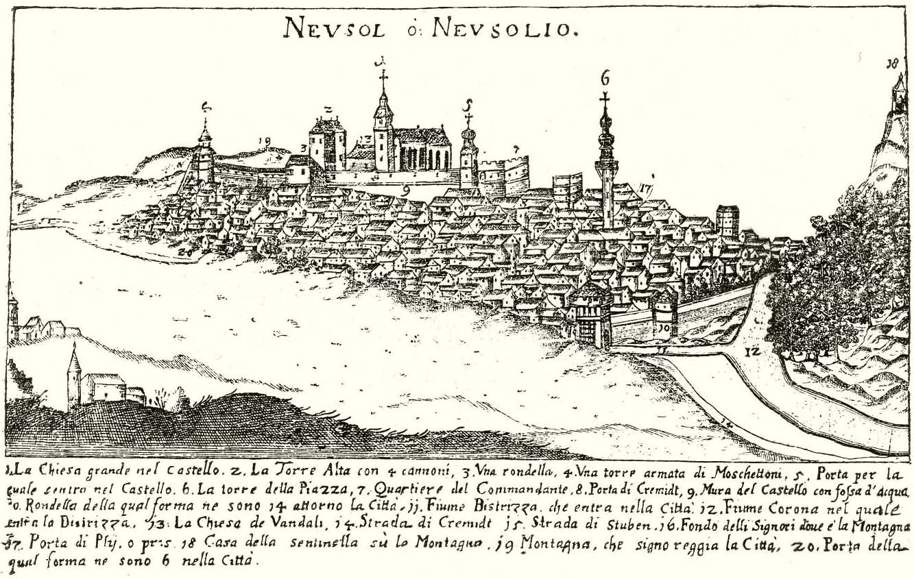 Banská Bystrica